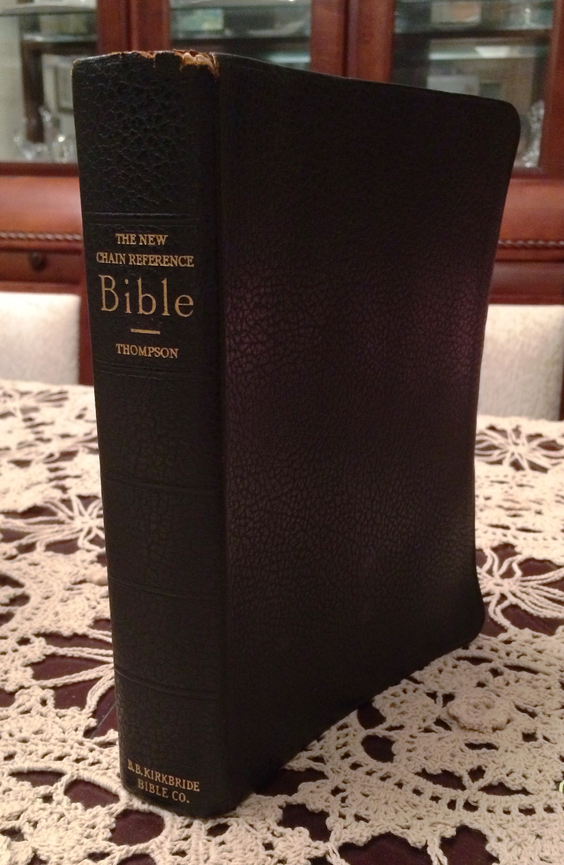 The cover of the Thompson Chain-Reference Bible (KJV) from 1964.